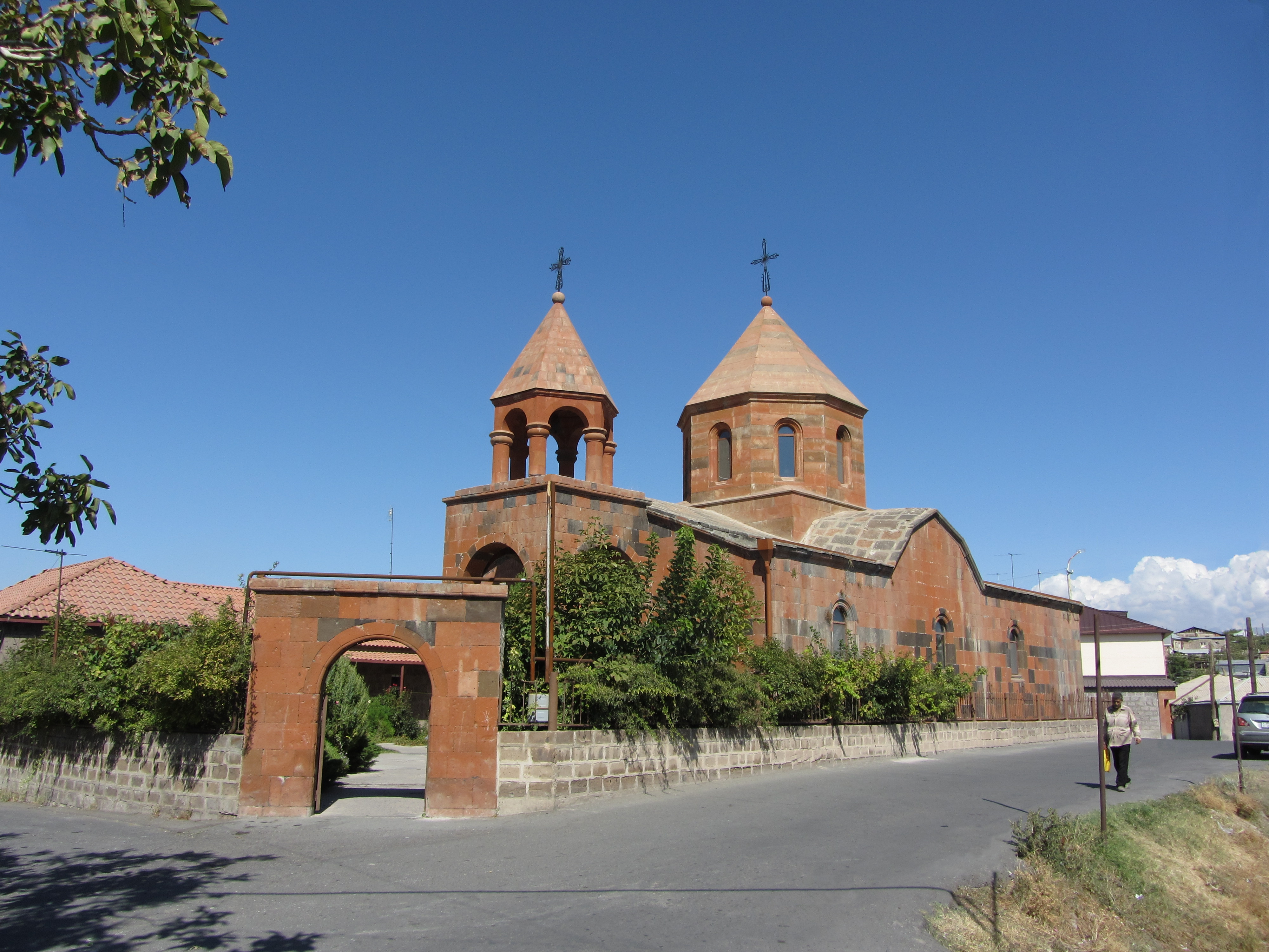 Jrvezh, Surb Astvatsatsin (Katoghike) Church (Church of The Holy Mother of God (Cathedral)), 1891, built on the place of an old church